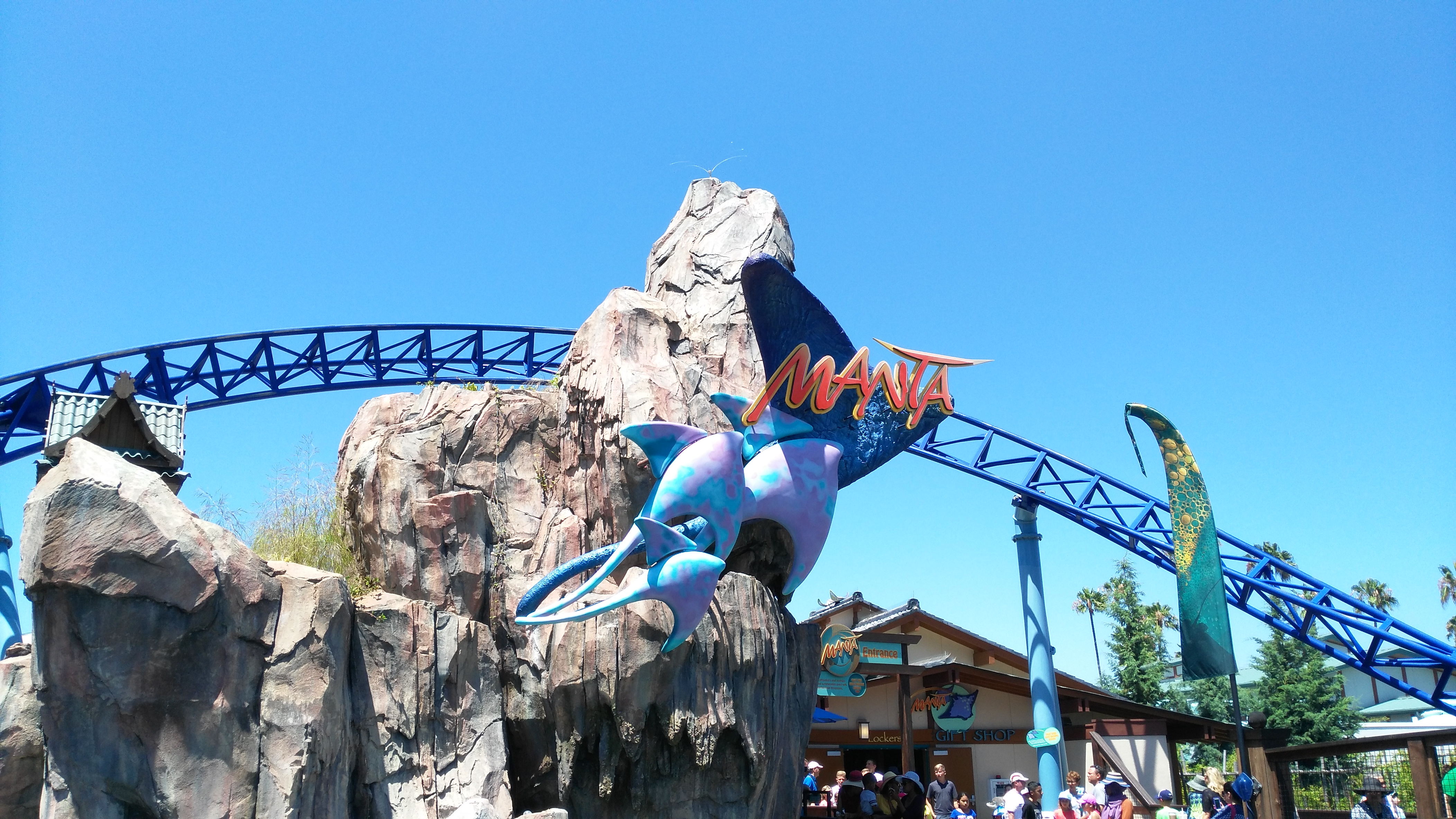 The entrance of the Manta rollercoaster in SeaWorld San Diego.